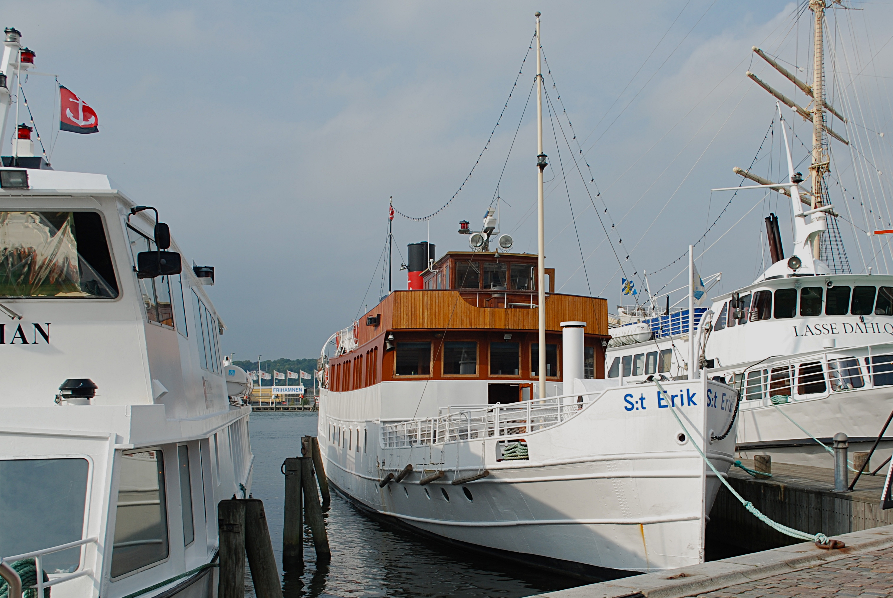 S:t Erik, August 2010. This is an image of the protected Swedish ship S:t Erik, with call sign SGFI .